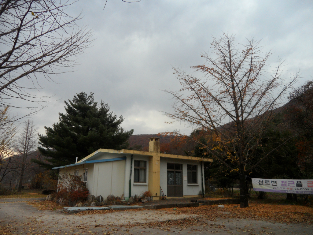 Mireuk Station (disused)